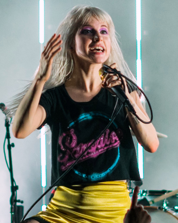 Paramore live concert at Royal Albert Hall, London, UK.